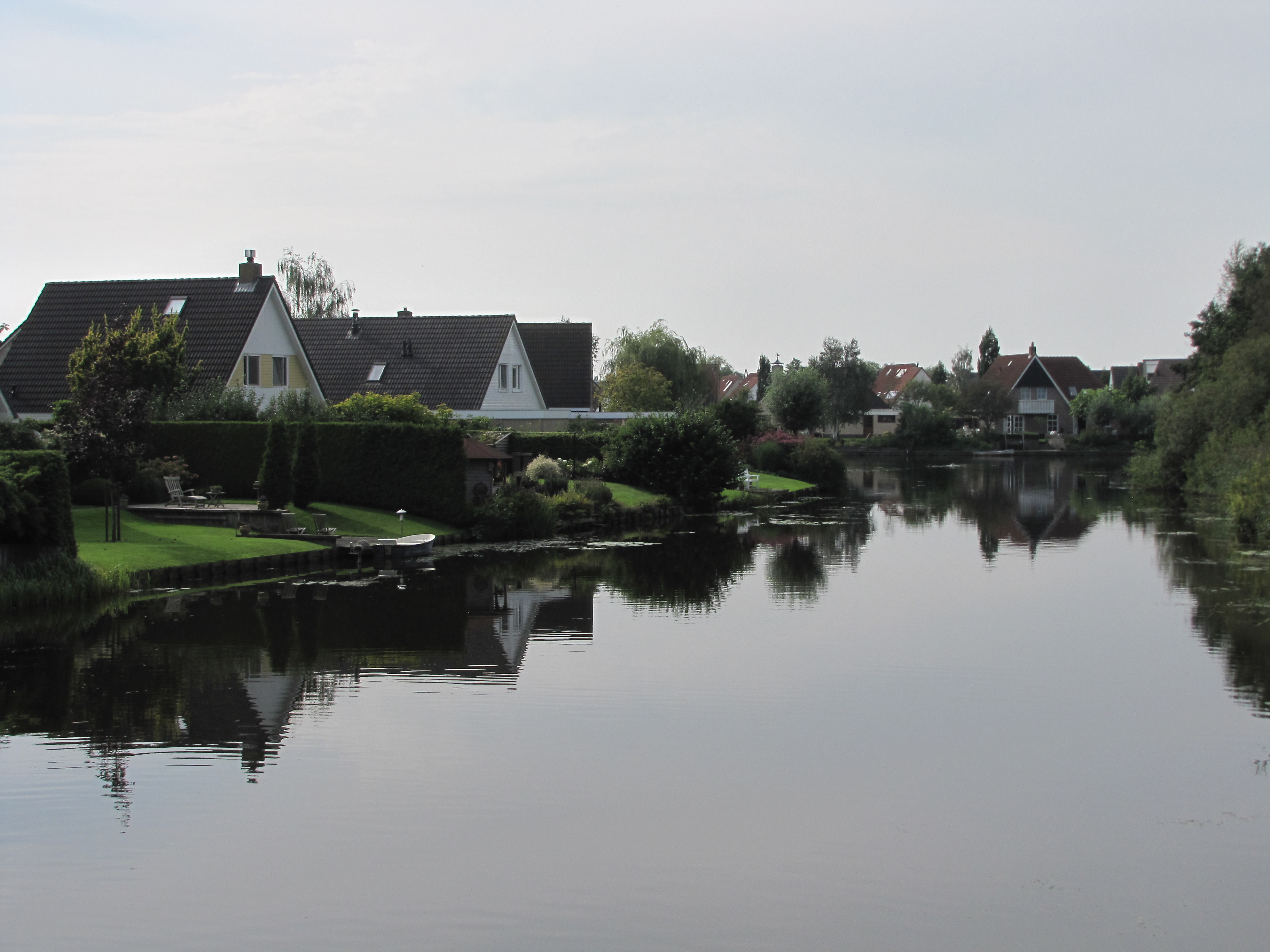 Town of Joure. Body of water behind houses in the street of Reling in the neighborhood of Skipsleat.